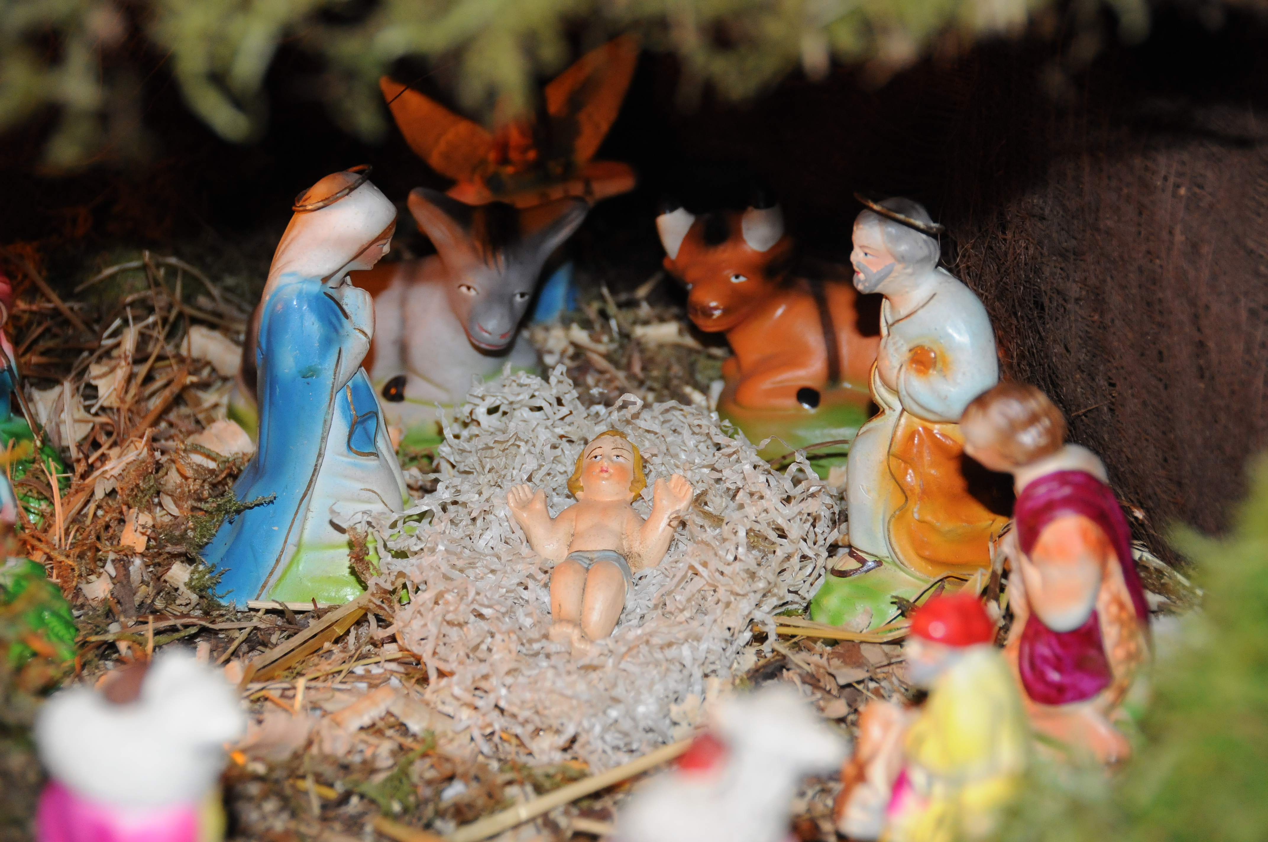 Nativity scenes of Portugal